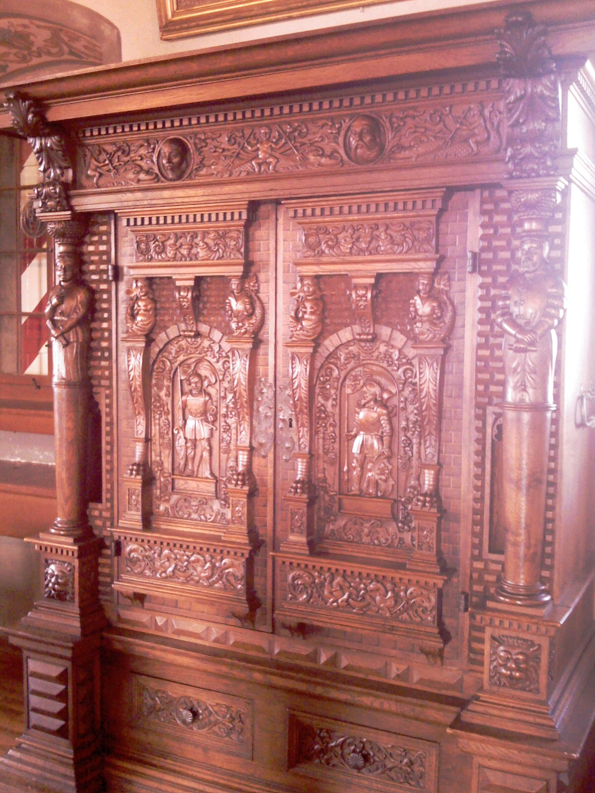 Castel Uster Wooden wardrobe in the knight's hall